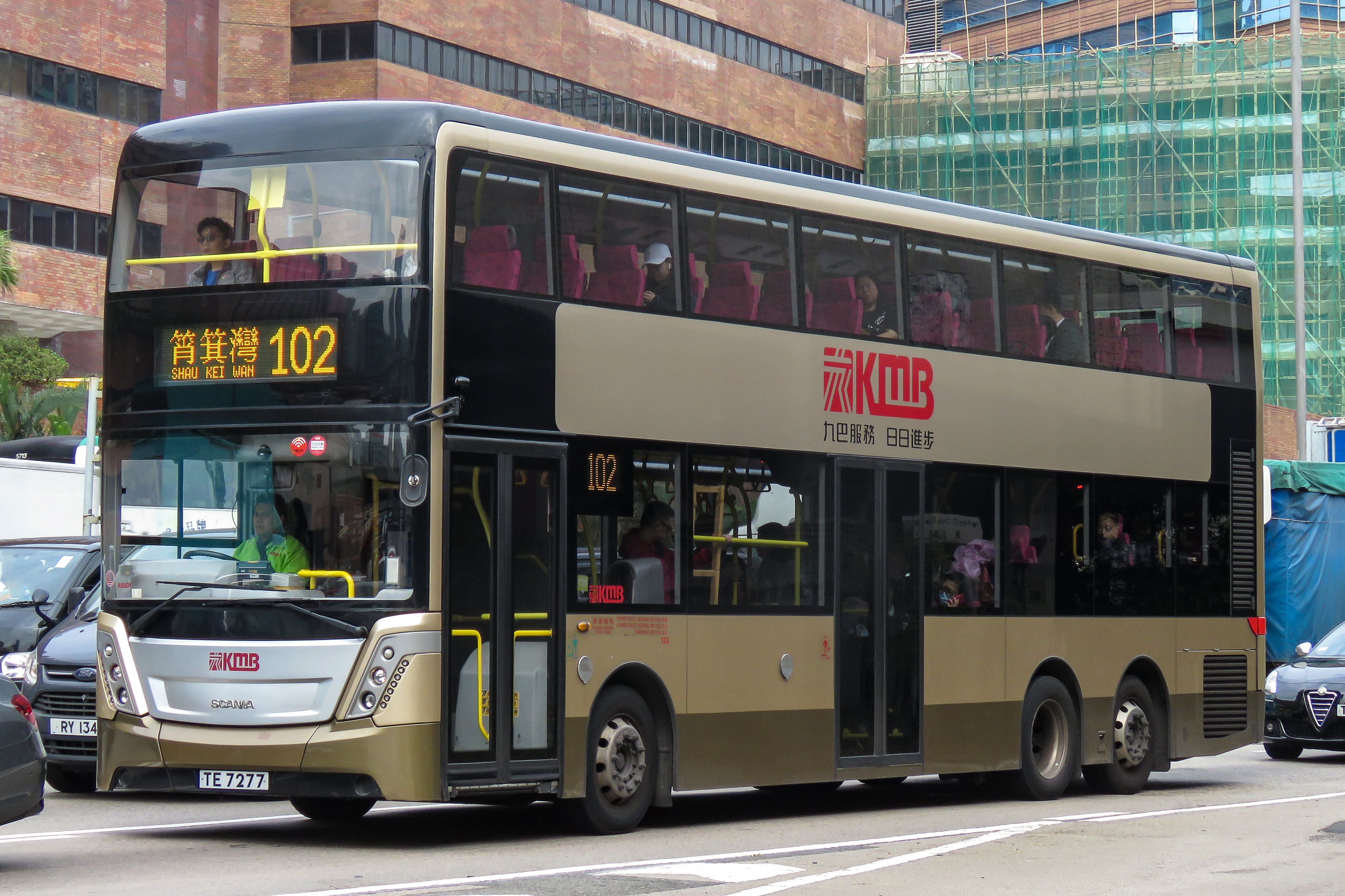 Here comes a "golden chicken" - Scania K280UD on route 102?! Unusual sight today!